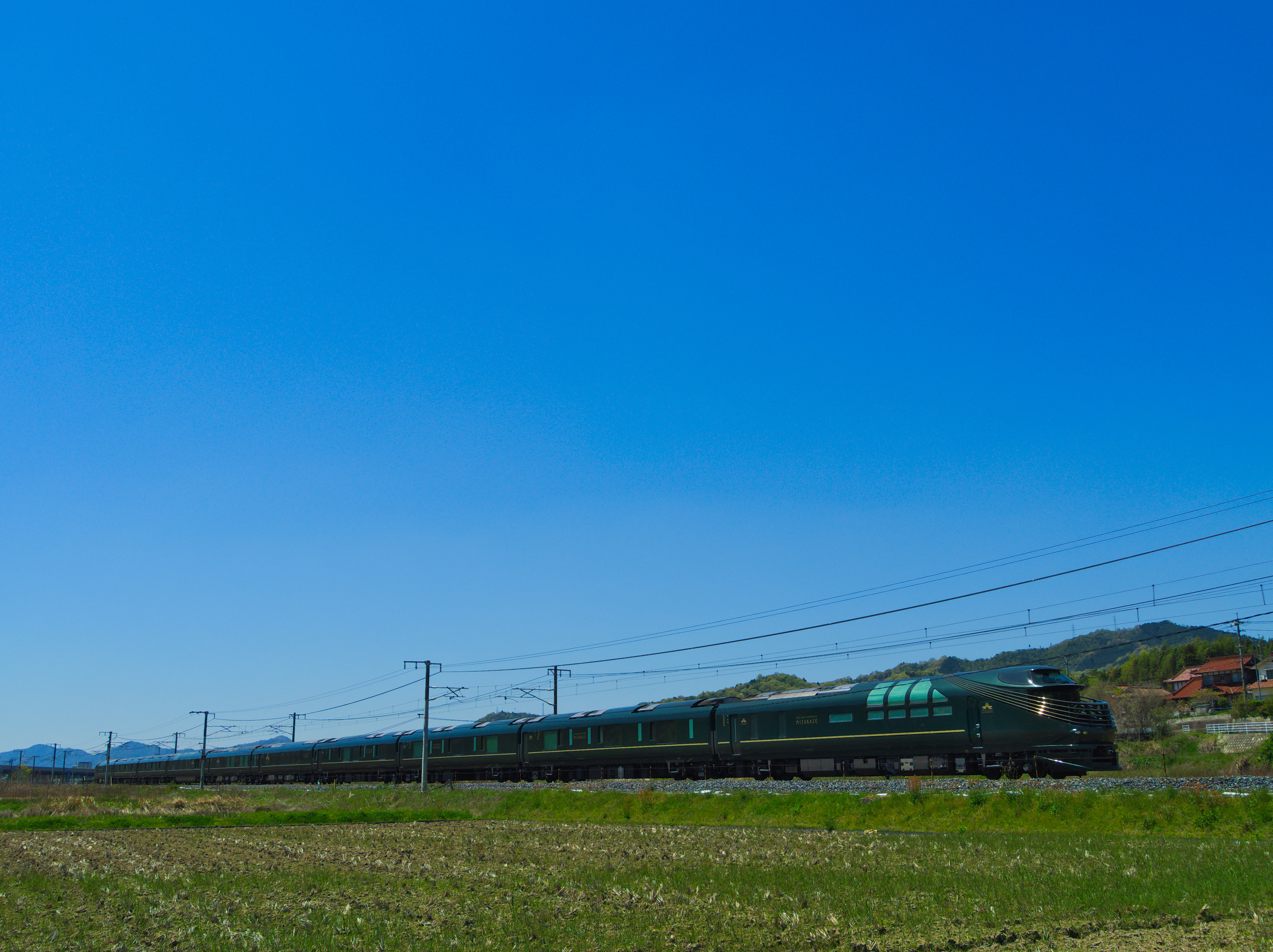 The JR West KiHa 87 series Twilight Express Mizukaze hybrid DMU cruise train on a test run